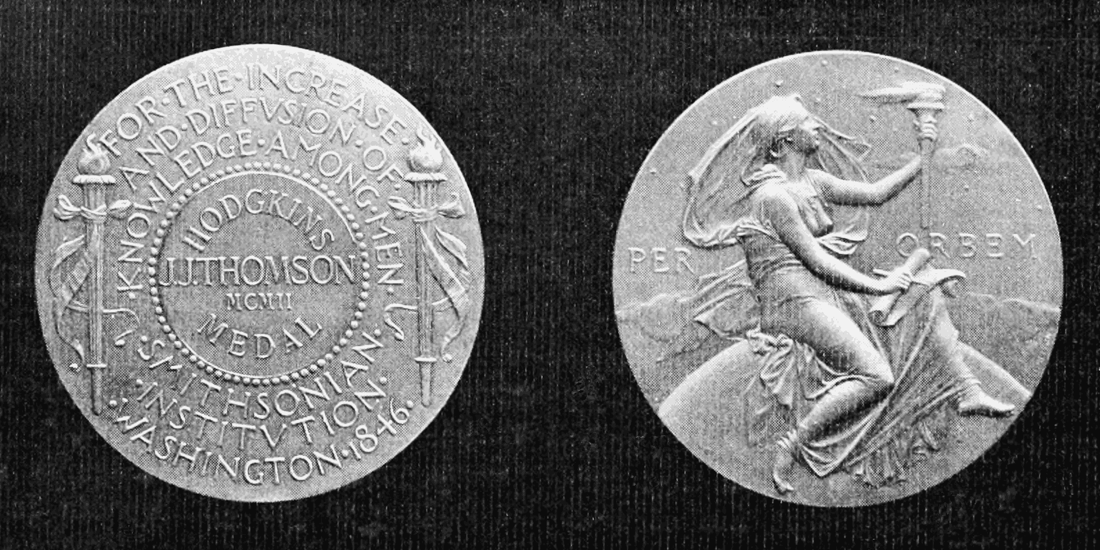 Hodgkins gold medal